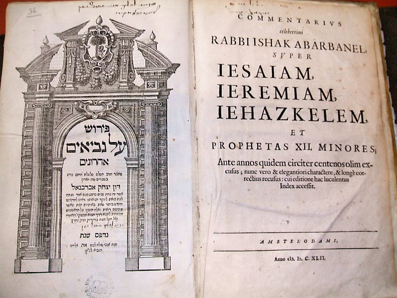 Perush ‘al Nevi’im ahronim = Commentarius celeberrimi Rabbi Ishak Abarbanel super Iesaiam, Ieremiam, Iehazkelem, et prophetas XII. minores (1642) New College Library Dal-Chr 36.